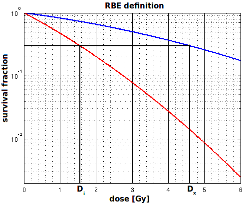 Definition of RBE (Relative biological effectiveness). RBE = Dx/Di Data for CHO-K1 cell line irradiated by photons (blue curve) and carbon ions (red curve).